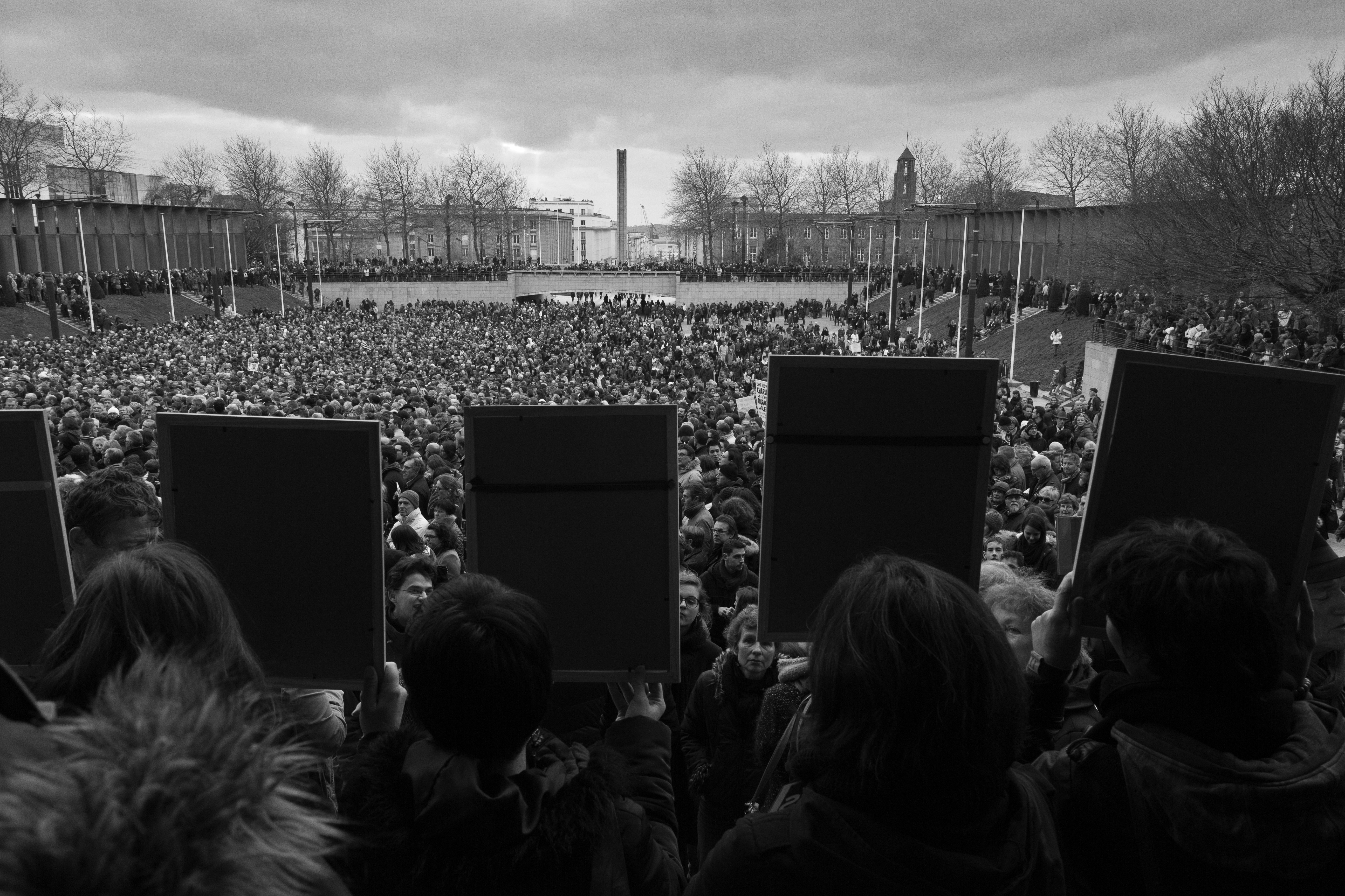 Brest rally in support of the victims of the 2015 Charlie Hebdo shooting, 11 January 2015.